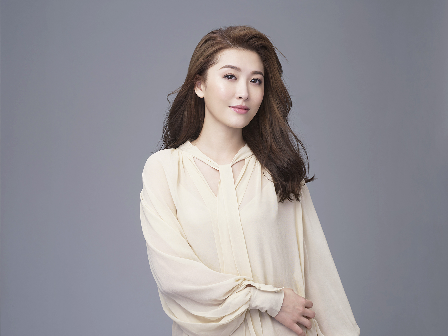 Niki Chow, in 2018.